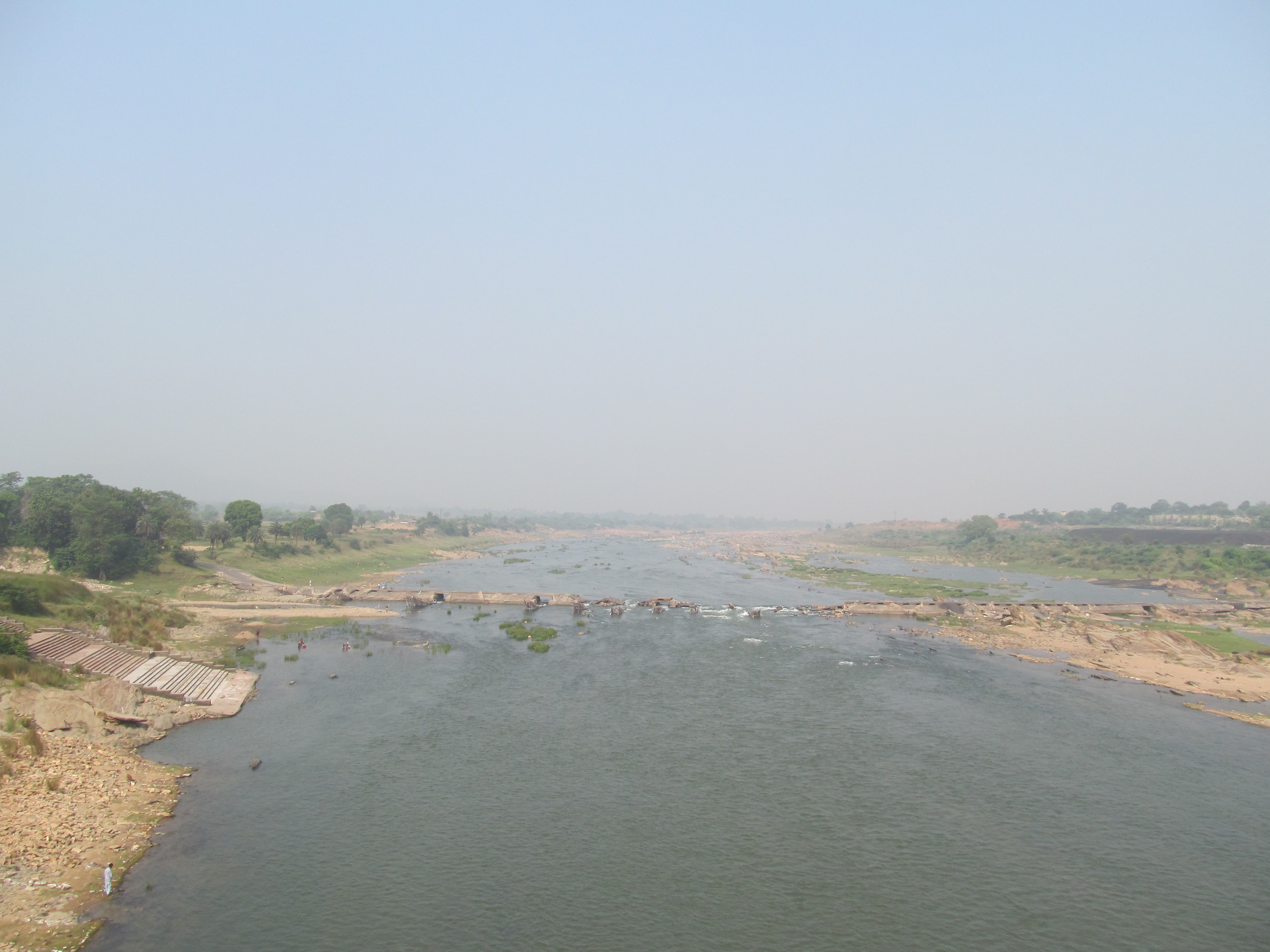 Subaranarekha river between Ghatshila and Benashol, Jharkhand